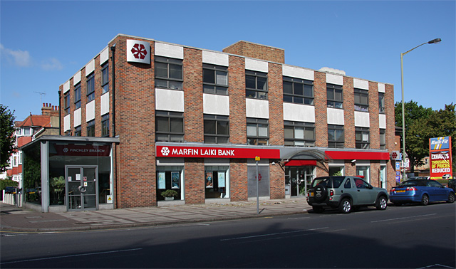 Marfin Laiki Bank A Cypriot bank (second largest after the Bank of Cyprus). These premises are located next to the junction with Woodside Grove on the High Road, North Finchley.